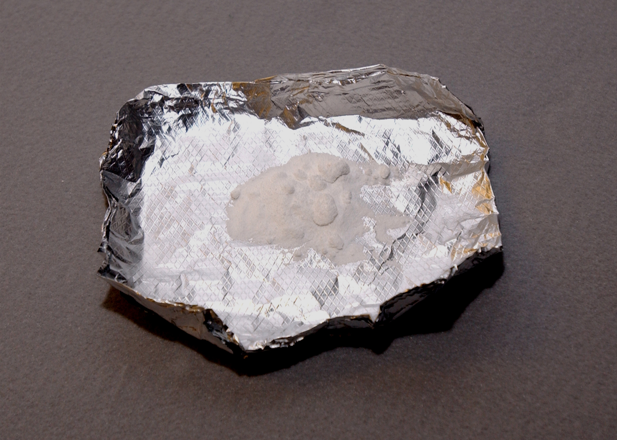 Powdered methamphetamine in tin foil